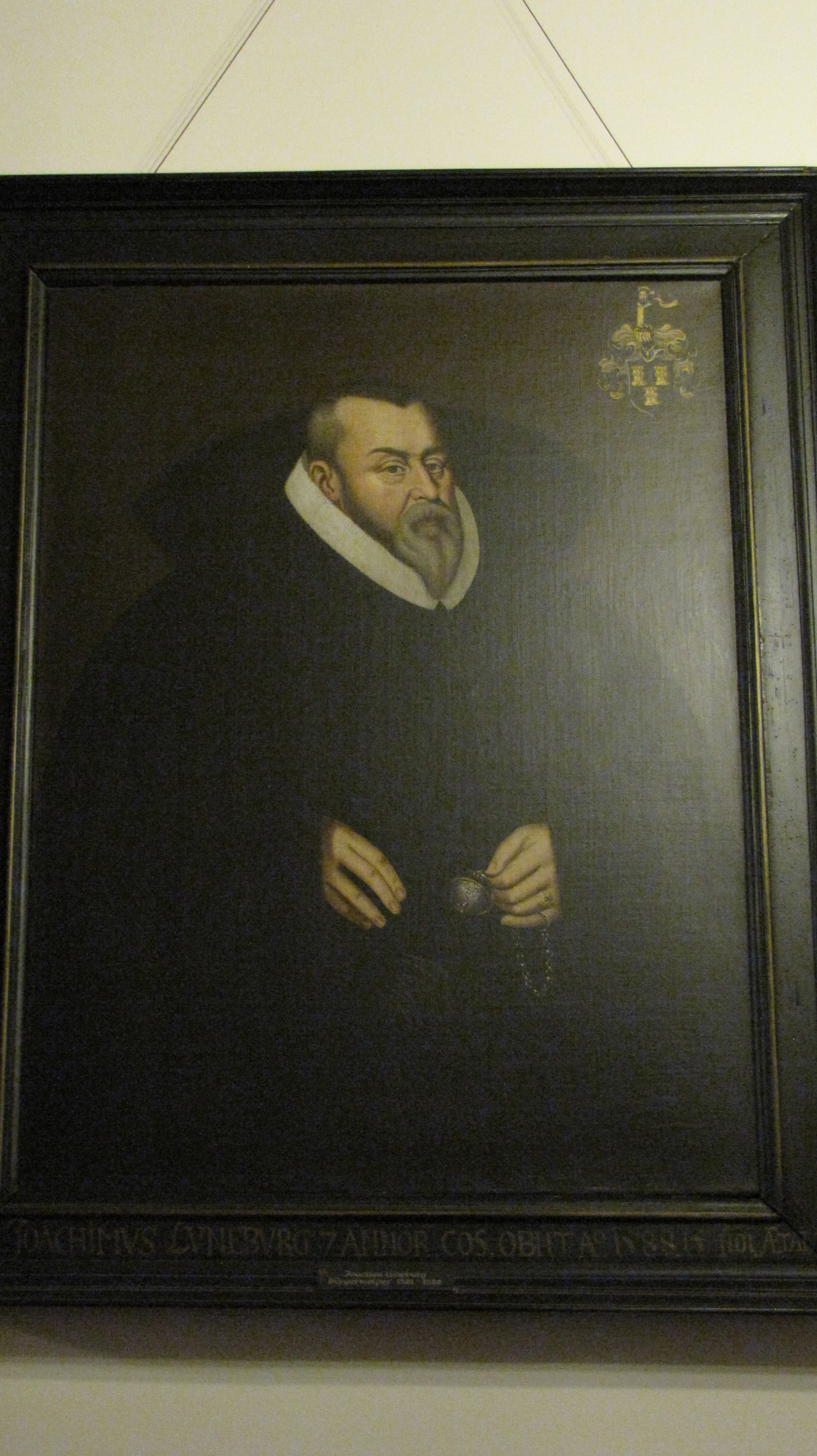 Portrait of mayor Joachim Lüneburg, Rathaus Lübeck